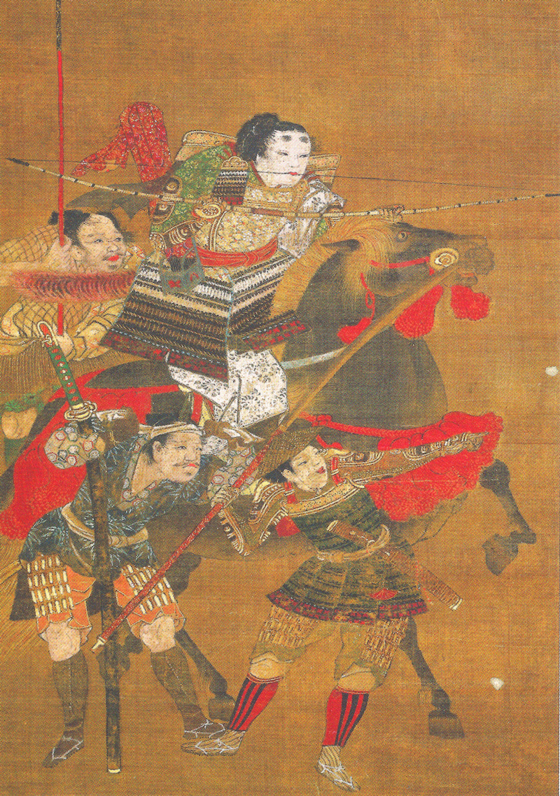 護良親王出陣図